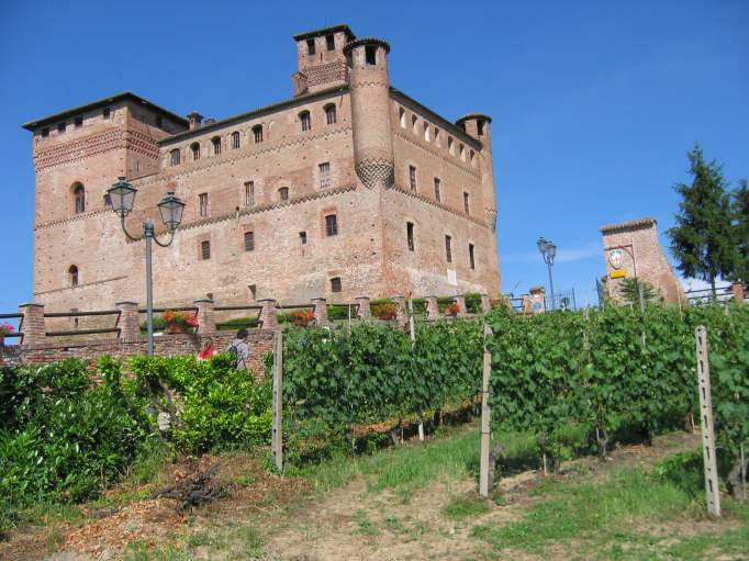 Photo of the Castle at Grinzane Cavour, NW Italy, Piemont